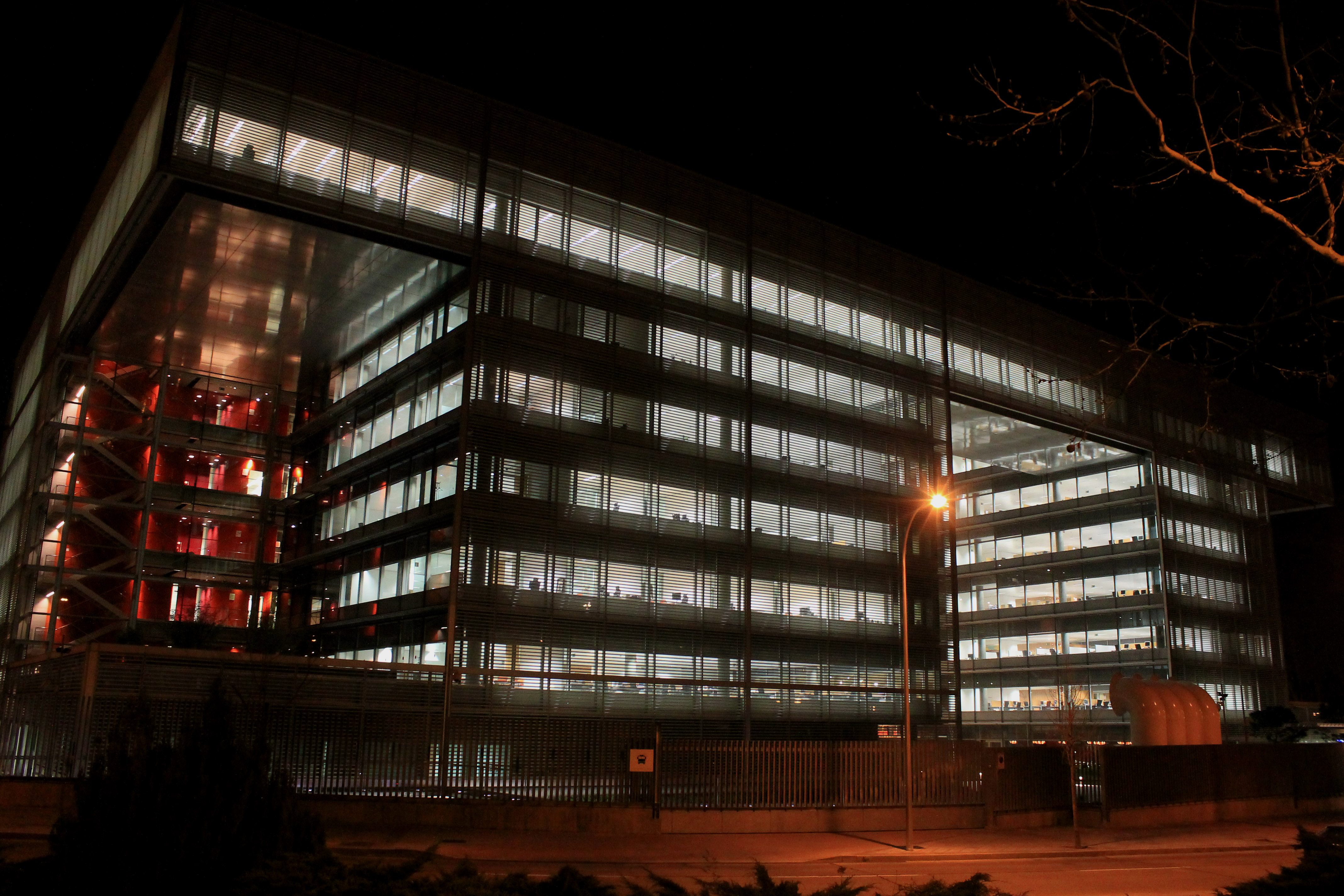 Night view of Banco Popular headquarters in Madrid (Spain).